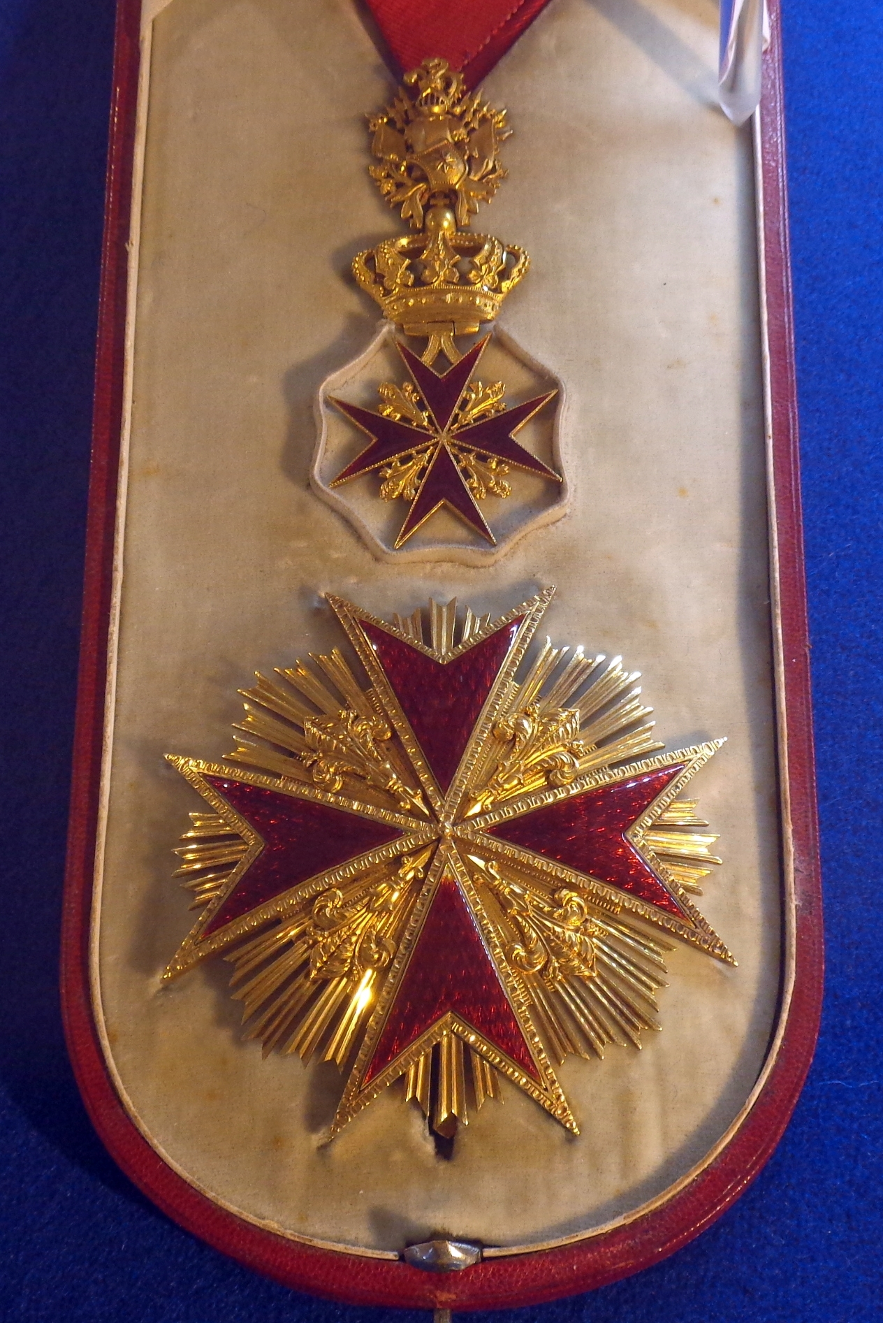 Order of Saint Stephen, badge and star. Grand Duchy of Tuscany. The exhibition of the Tallinn Museum of Orders of Knighthood, Estonia.